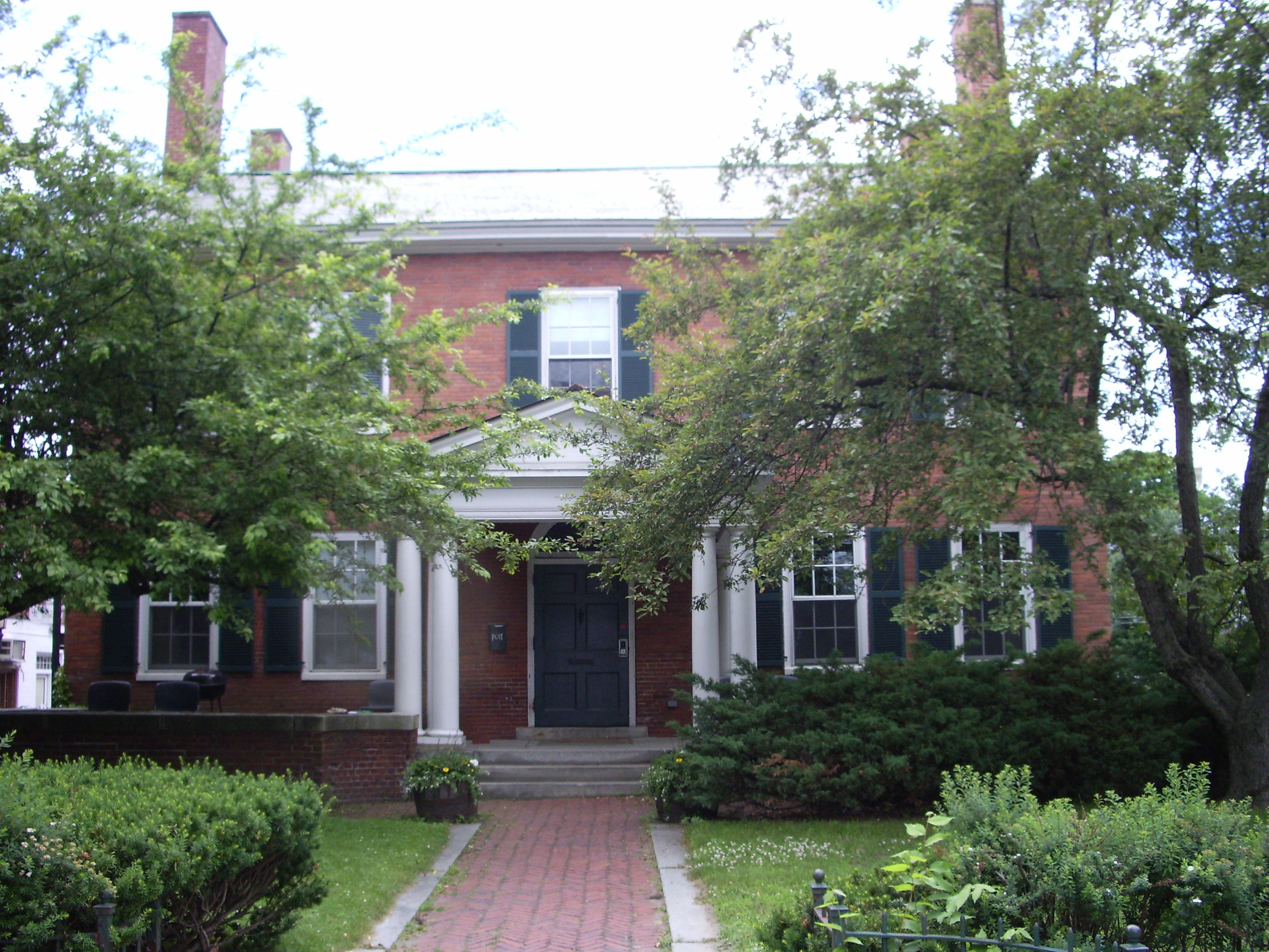 Photograph of Casque & Gauntlet at the campus of Dartmouth College in Hanover, New Hampshire.